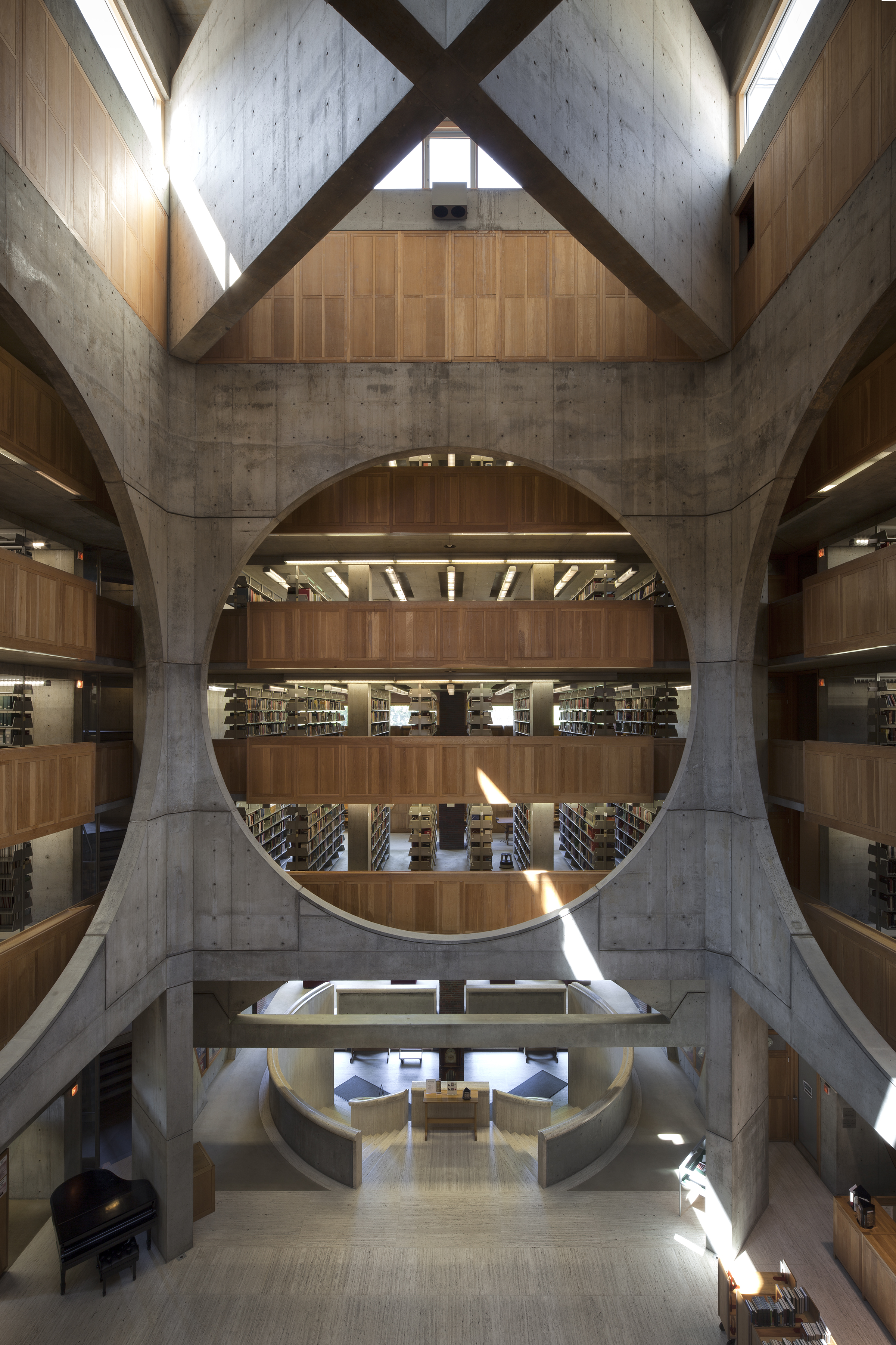 Exeter Library. Exeter, New Hampshire